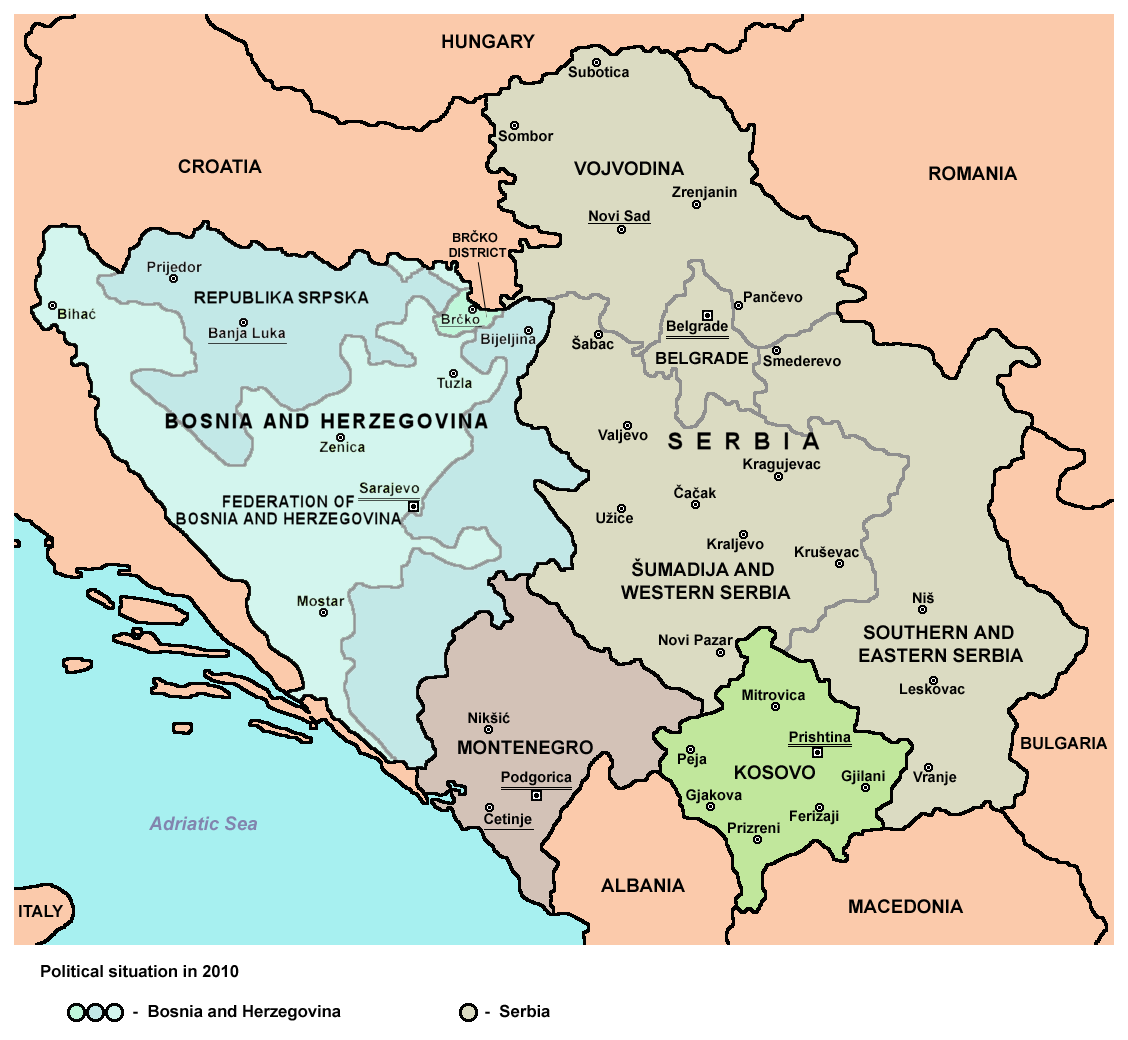 Map of Central Balkans in 2010 - showing Bosnia and Herzegovina, Serbia, Montenegro and Kosovo.